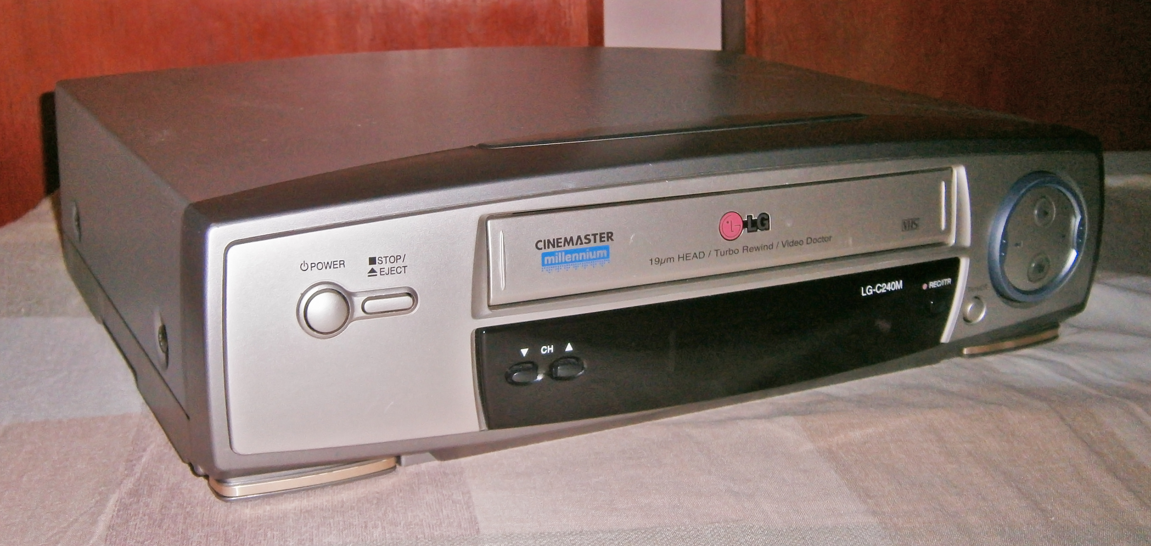 Video-cassette player model LG-C240M Reading and VCR VHS Recorder SP, SLP, EP, LP supports types of systems such as PAL, SECAM, NTSC, has TAI-Correction System for Automatically adjust the image system if it goes bad in a tape Photo by: Julian Andres July